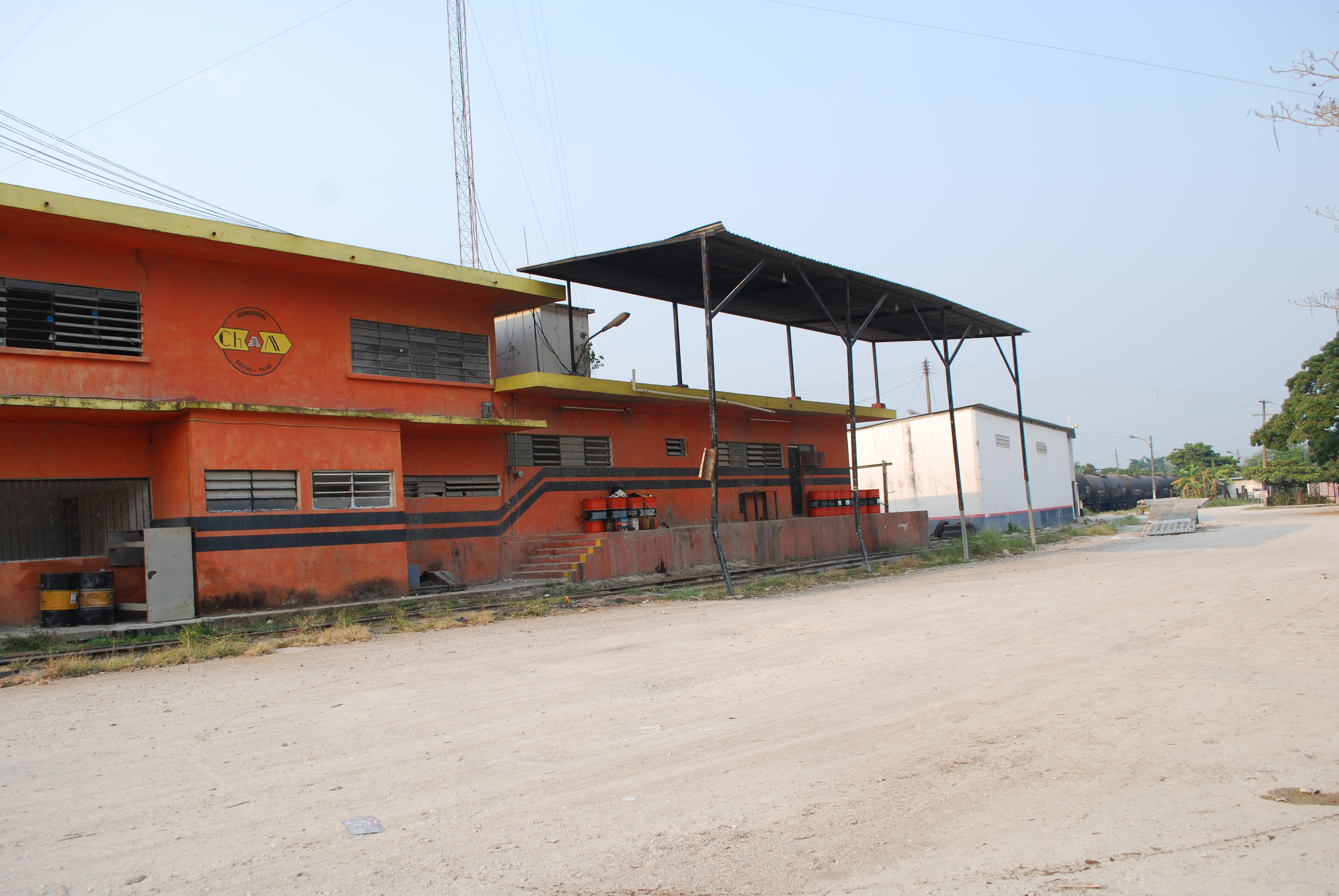 Train station at Palenque, Chiapas, Mexico